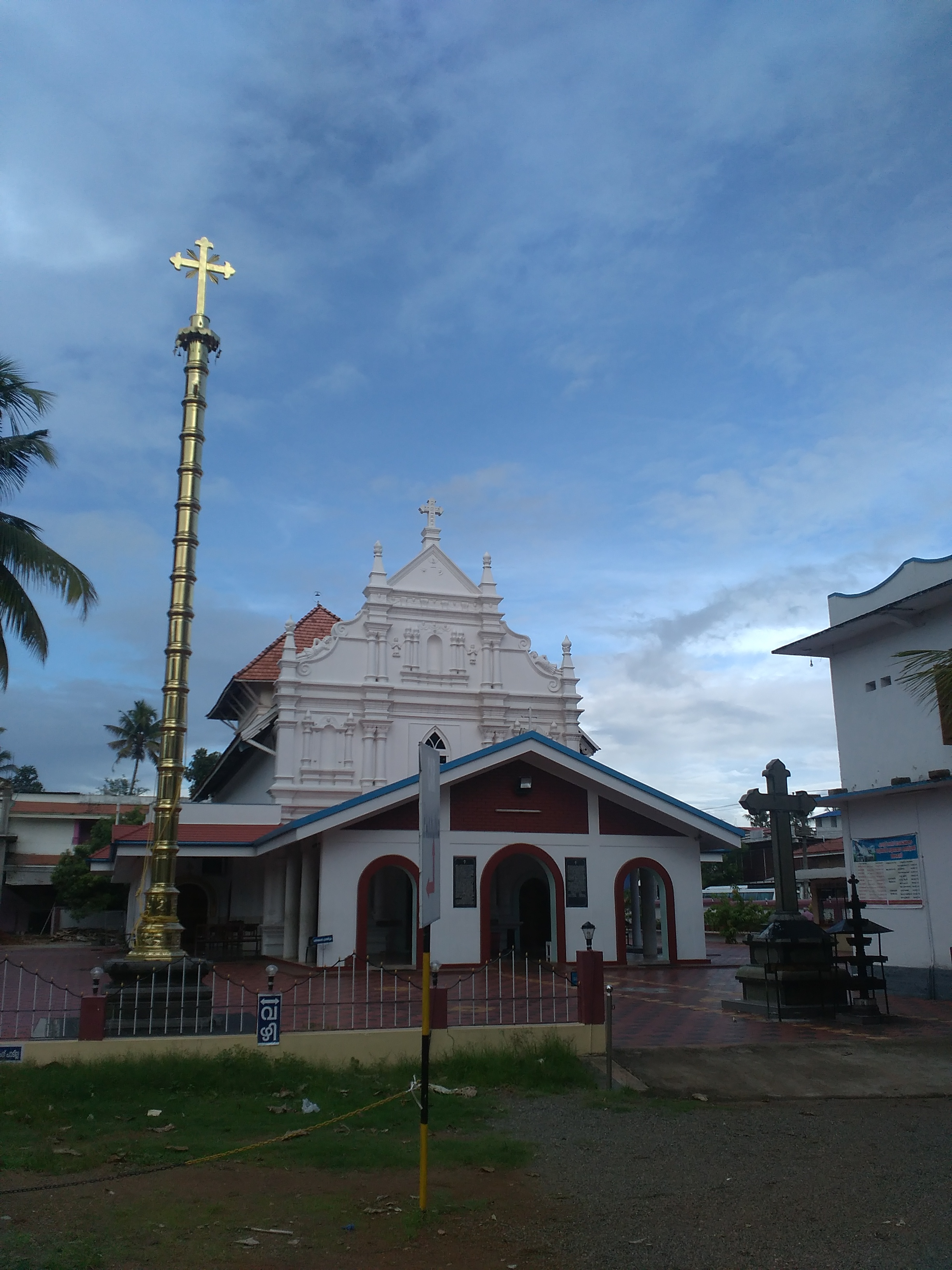 Church view from the West , newly built flagstaff and cross made of stone